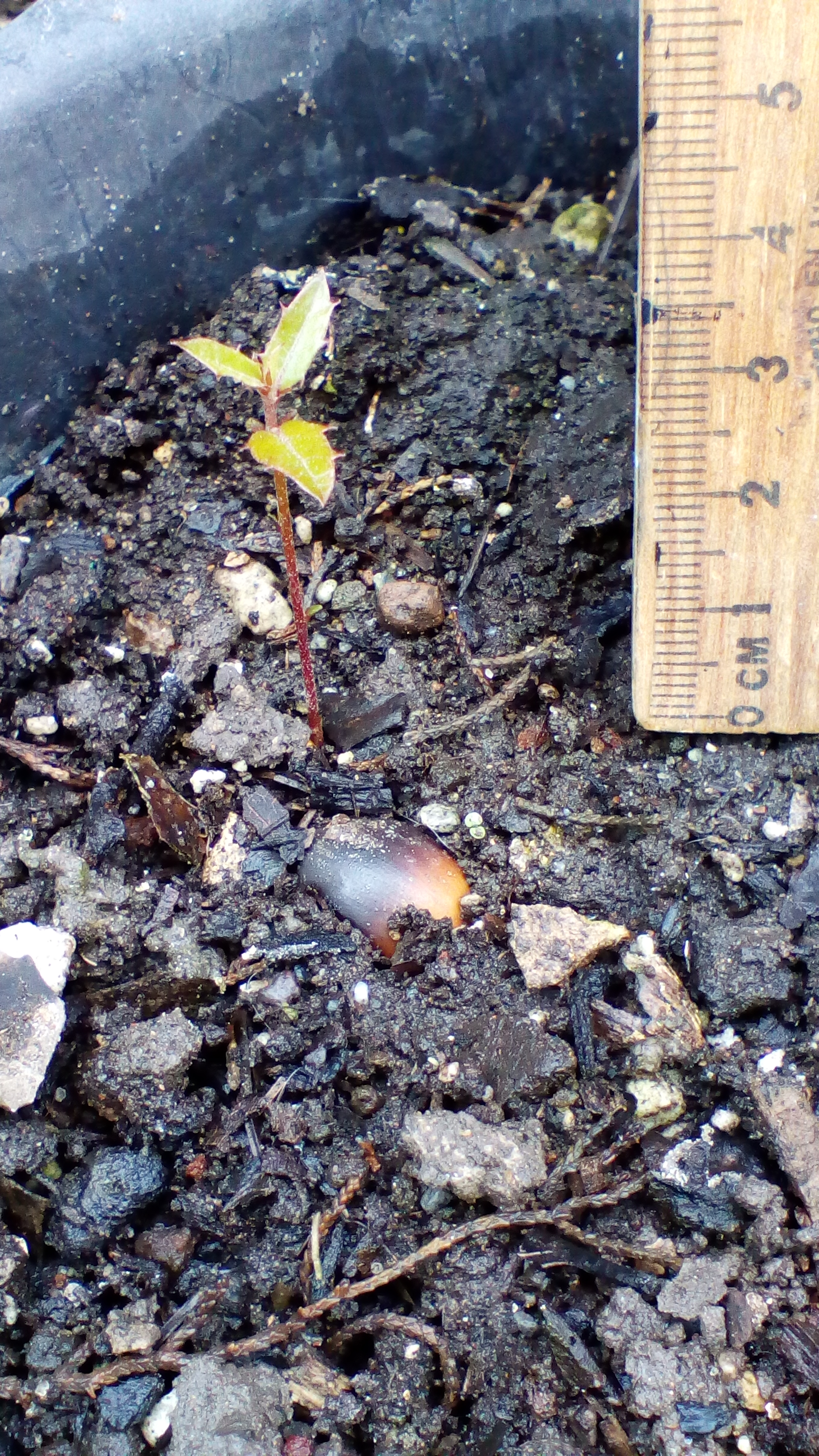 Two-week-old southern live oak sapling (Quercus virginiana). Notice the original acorn near the base.